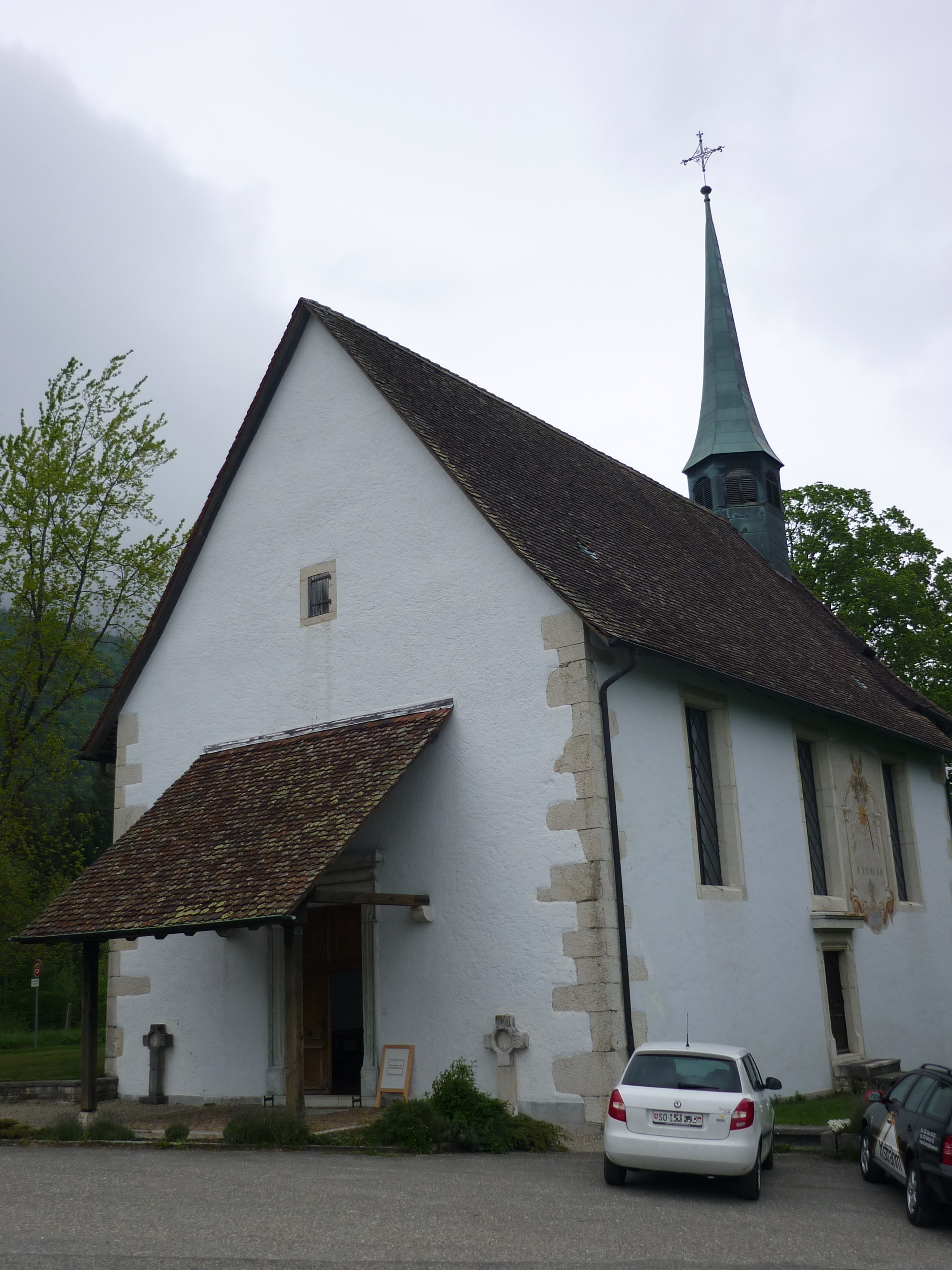 Chapel Allerheiligen ("All Saints") in Grenchen, canton of Solothurn, Switzerland, seen from southwest.